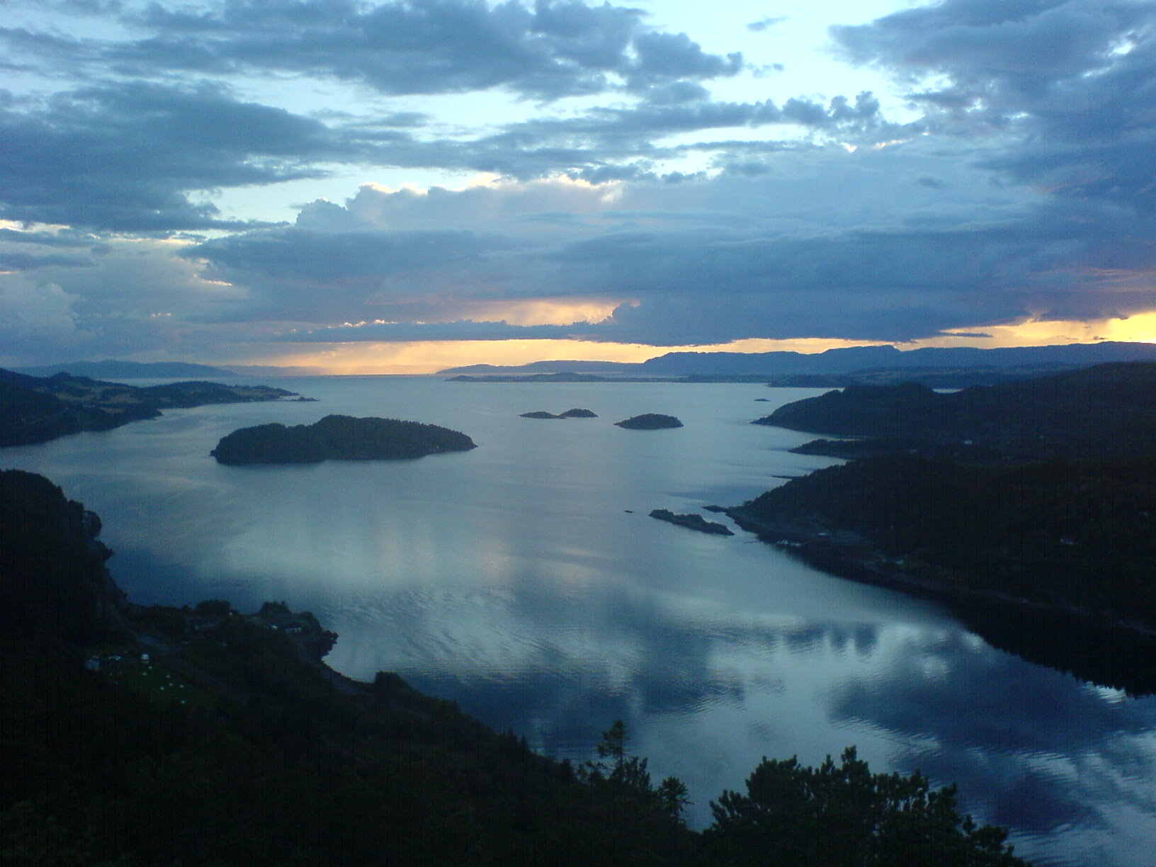 Åsenfjorden between Stjørdal, Frosta and Levanger in Norway. The picture is taken from the area called Langstein near Skatval. A fantastic view! See also this picture, which is taken (in same direction) from the island in center of the image: [1]